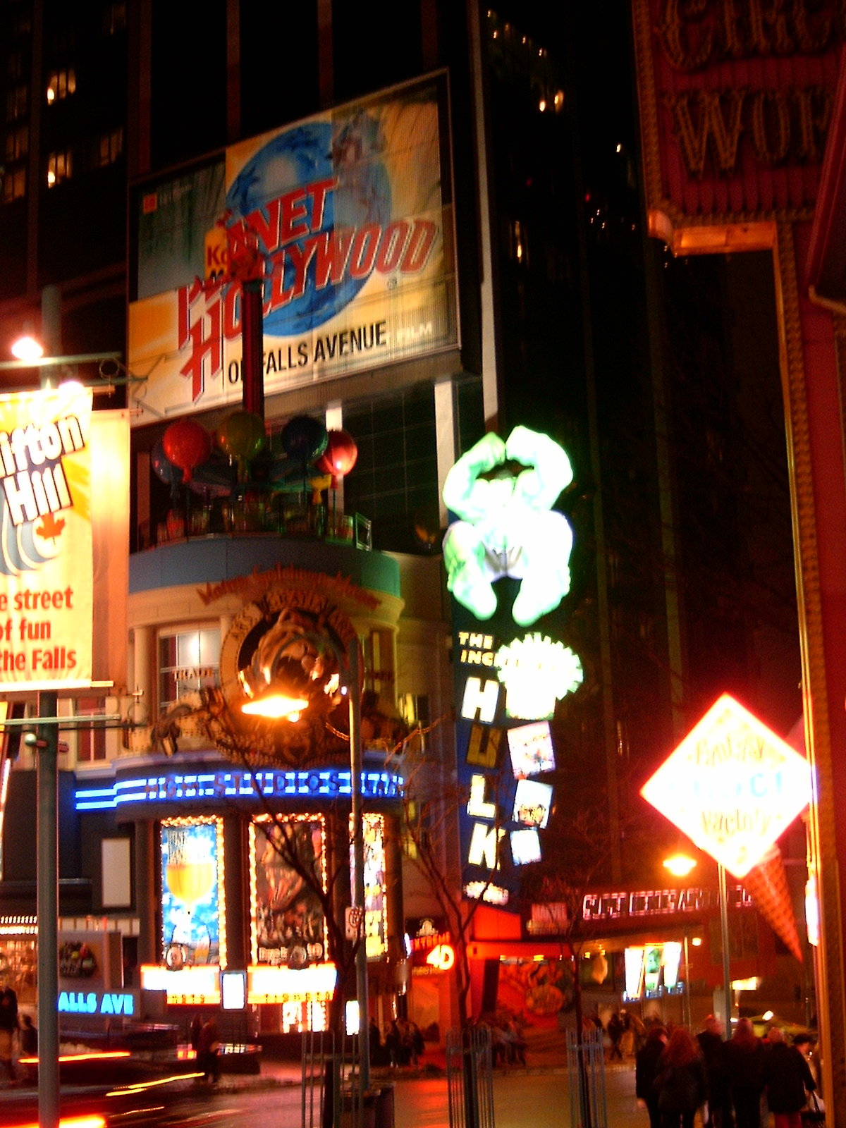 Popular Clifton Hill at night